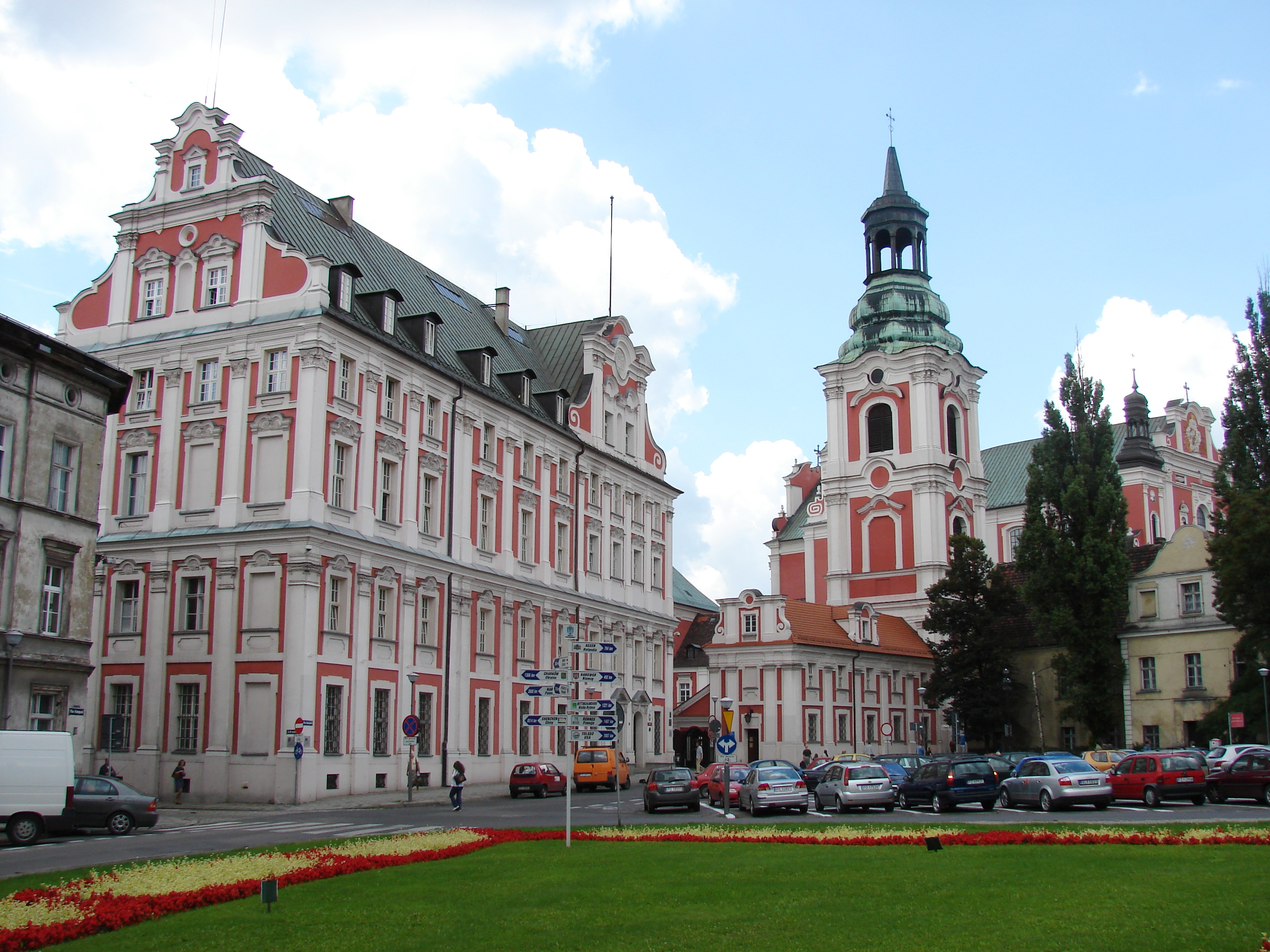 Former Jesuits Comlex in Poznań